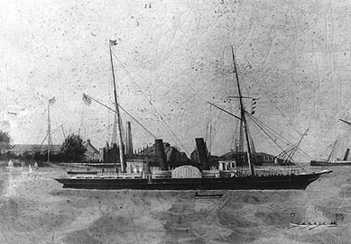 USS Estrella (1862-1867) Painting depicting Estrella (at left) off the Pensacola Navy Yard, Florida, circa 1866-1867. USS Yucca (1865-1868) is in the middle distance. The sailing frigate at right is not identified.